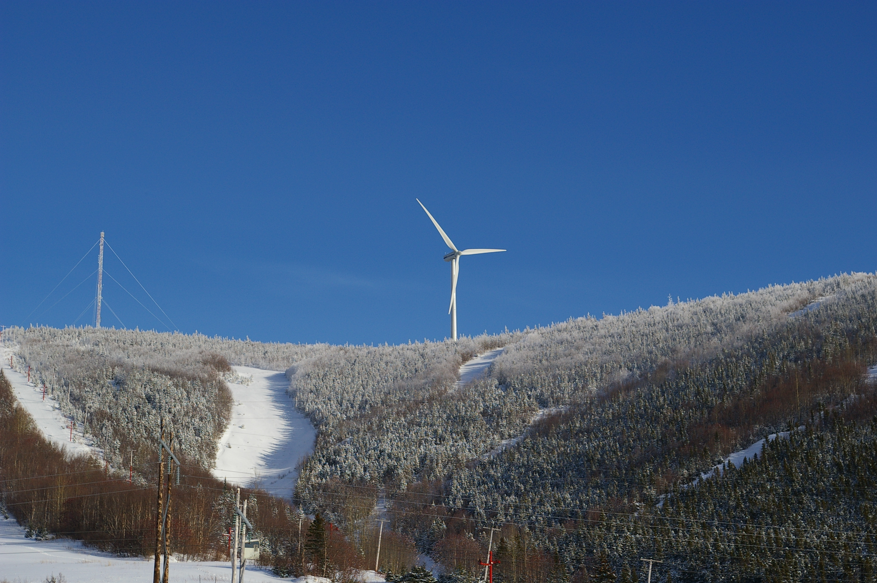 North vue of Murdocville